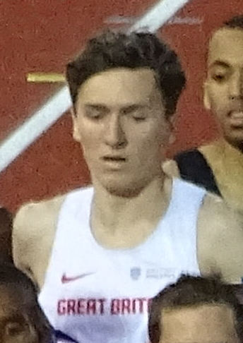 1500 metres final at the 2016 European Championships in Athletics in Amsterdam.